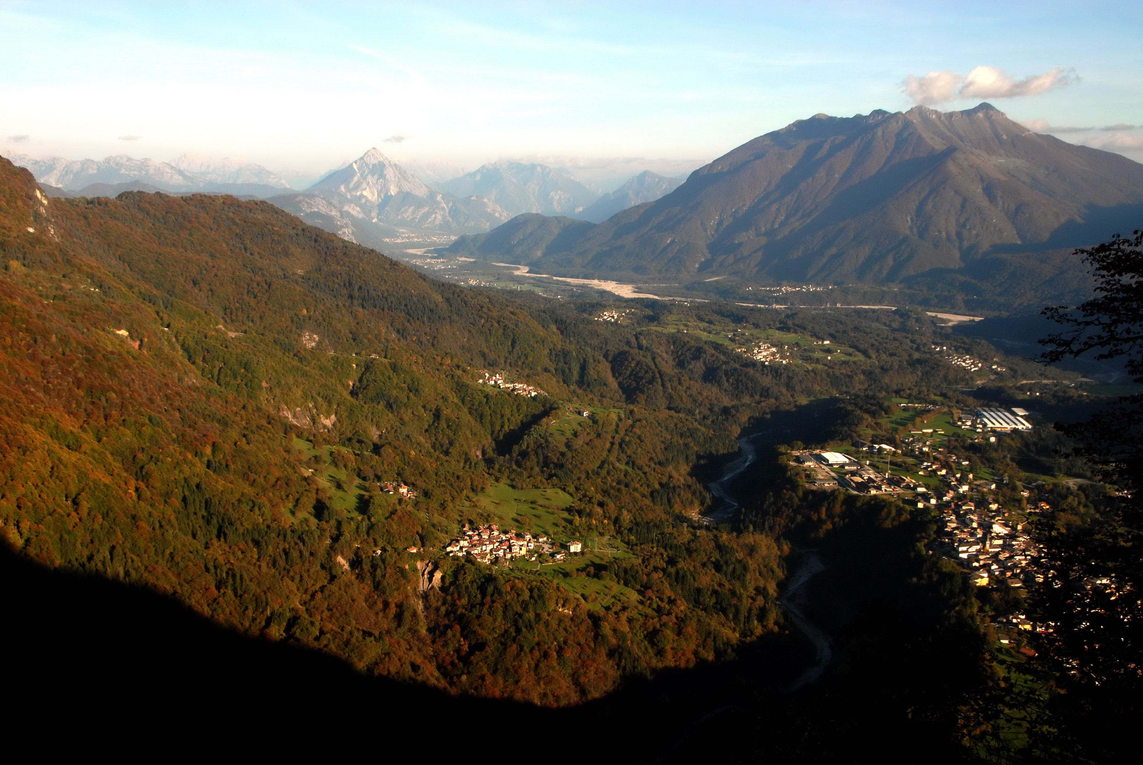 Valley of Tagliamento near Ampezzo (UD) (in the foreground), province of Udine, region Friuli Venezia-Giulia, Italy